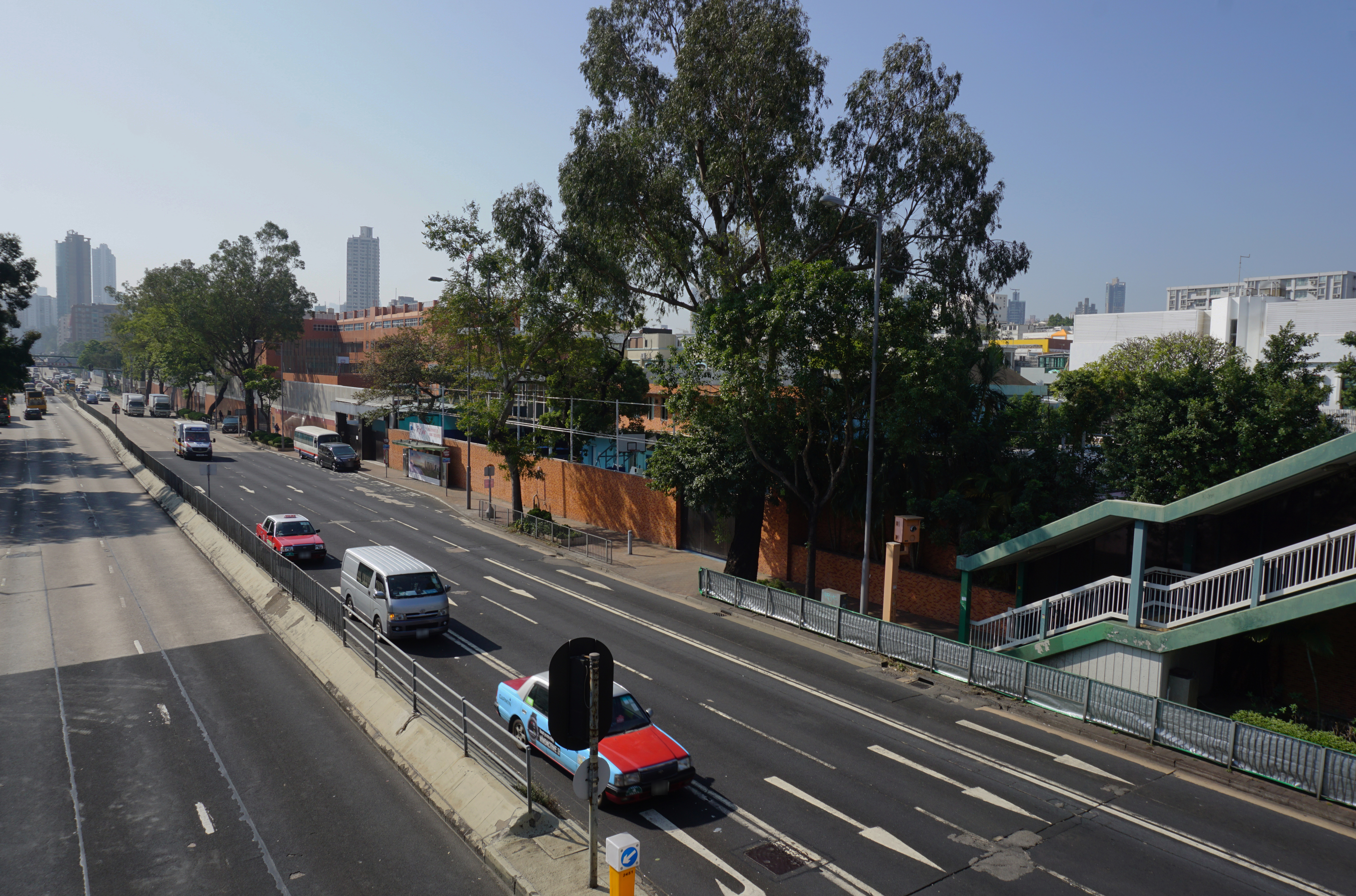 American International School in Kowloon Tong, Hong Kong.